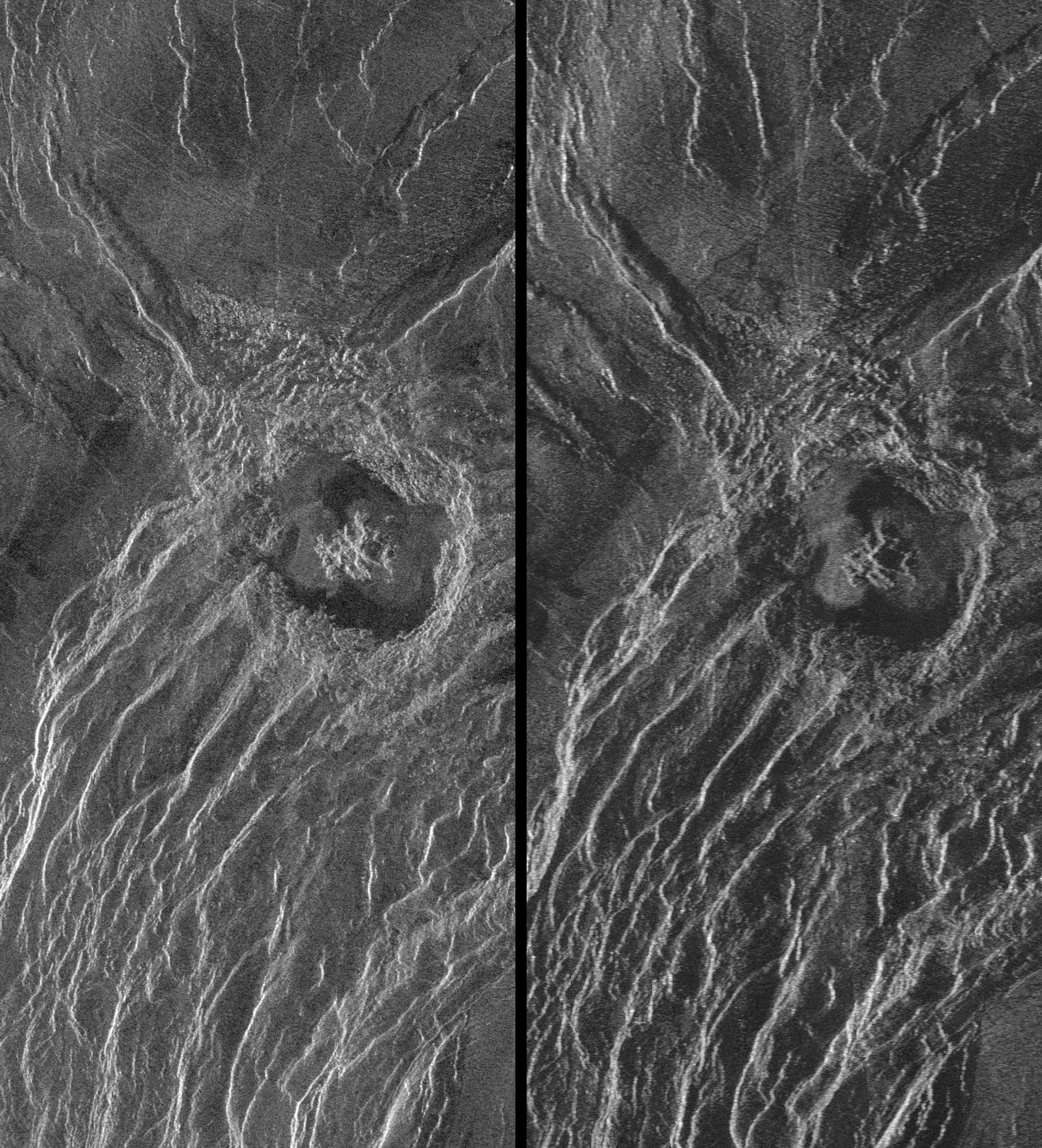 During the third global cycle of Magellan's radar mapping mission, images were obtained at viewing angles that were slightly different than those used in the first two cycles. This strategy was designed to produce stereo image pairs, which take advantage of distortions induced by the different views to provide details of the surface topography. This is a stereo image pair of crater Geopert-Meyer, named for the 20th Century Polish physicist and Nobel laureate (60 degrees north latitude, 26.5 degrees east longitude). The crater, 35 kilometers (22 miles) in diameter, lies above an escarpment at the edge of a ridge belt in southern Ishtar Terra. West of the crater the scarp has more than one kilometer (0.6 mile) of relief. Perception of relief may be obtained with stereo glasses or a stereoscope. Some individuals may be able to fuse the images without the aid of those devices. The radar illumination for both images is from the west, or left side of the scene. Incidence angles are: (Cycle 1 (left) 28 degrees, Cycle 3 (right) 15 degrees from vertical. Analysis of stereo image pairs allows planetary scientists to resolve details of topographic relationships on Venusian craters, volcanoes, mountain belts and fault zones. The spatial resolution of this topographic information is approximately ten times better than that obtained by Magellan's altimetry experiment.